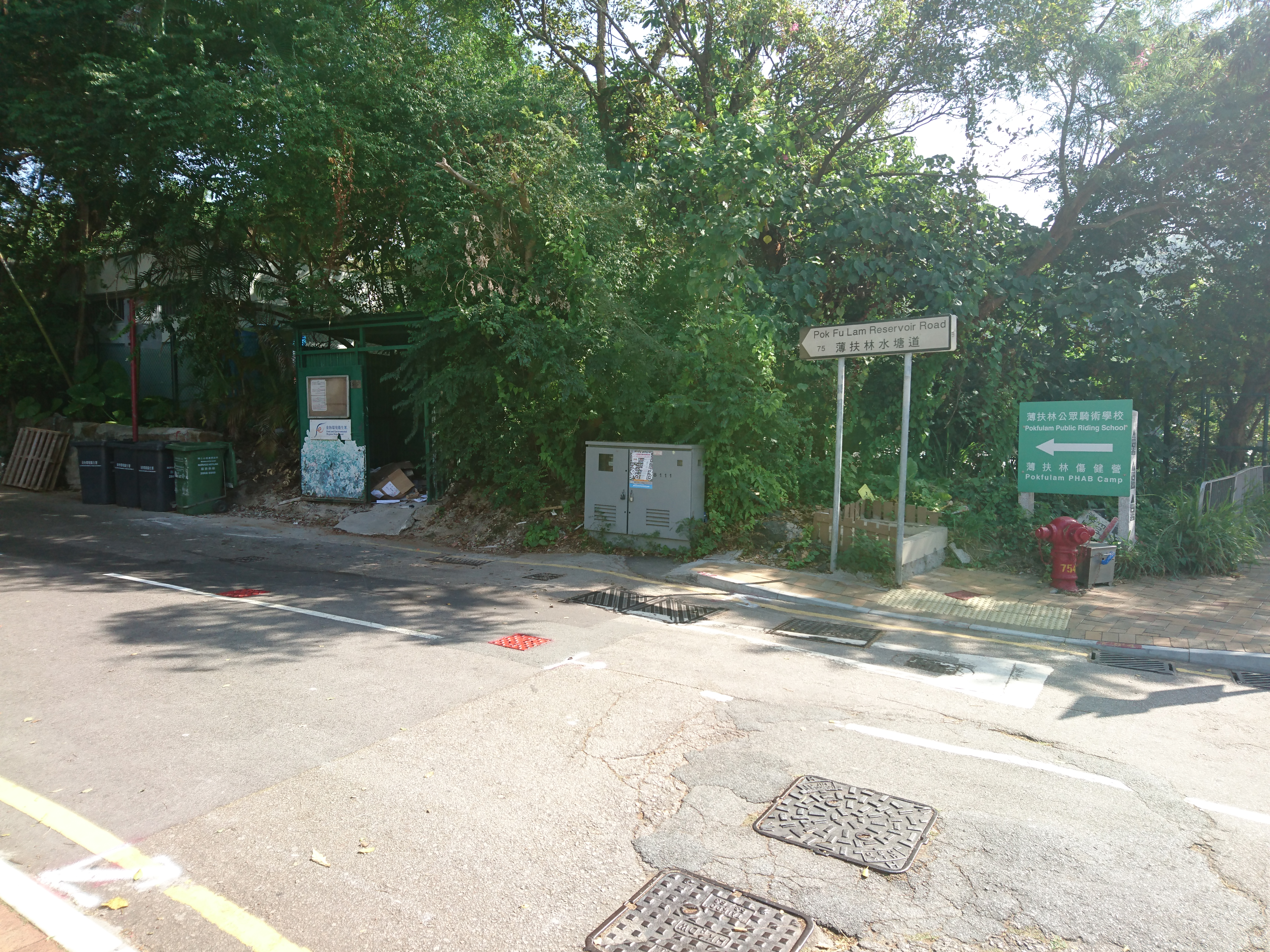 Pok Fu Lam Reservoir Road near Pok Fu Lam Road